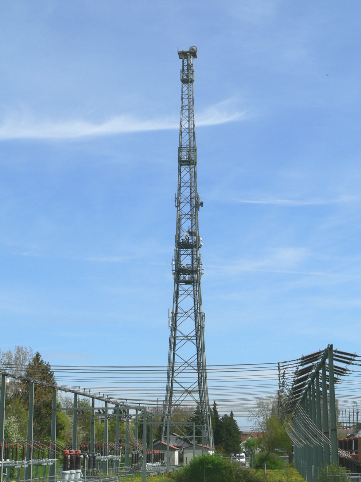 Telecommunication tower in Stuttgart-Moehringen, Germany